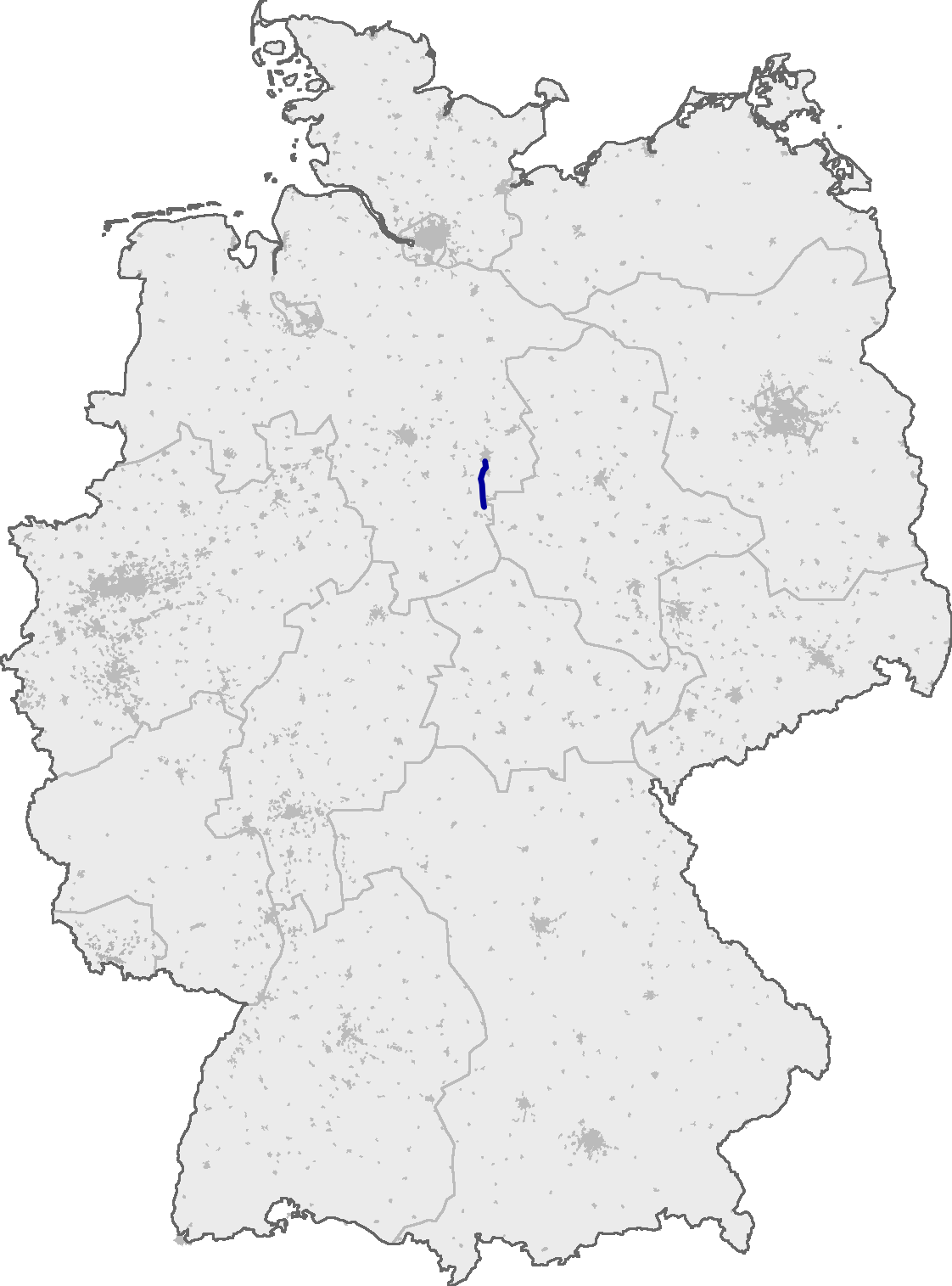 Map of Germany Bundesautobahn 395